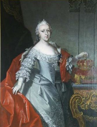 Louise of Denmark duchess of Saxe-Hildburghausen